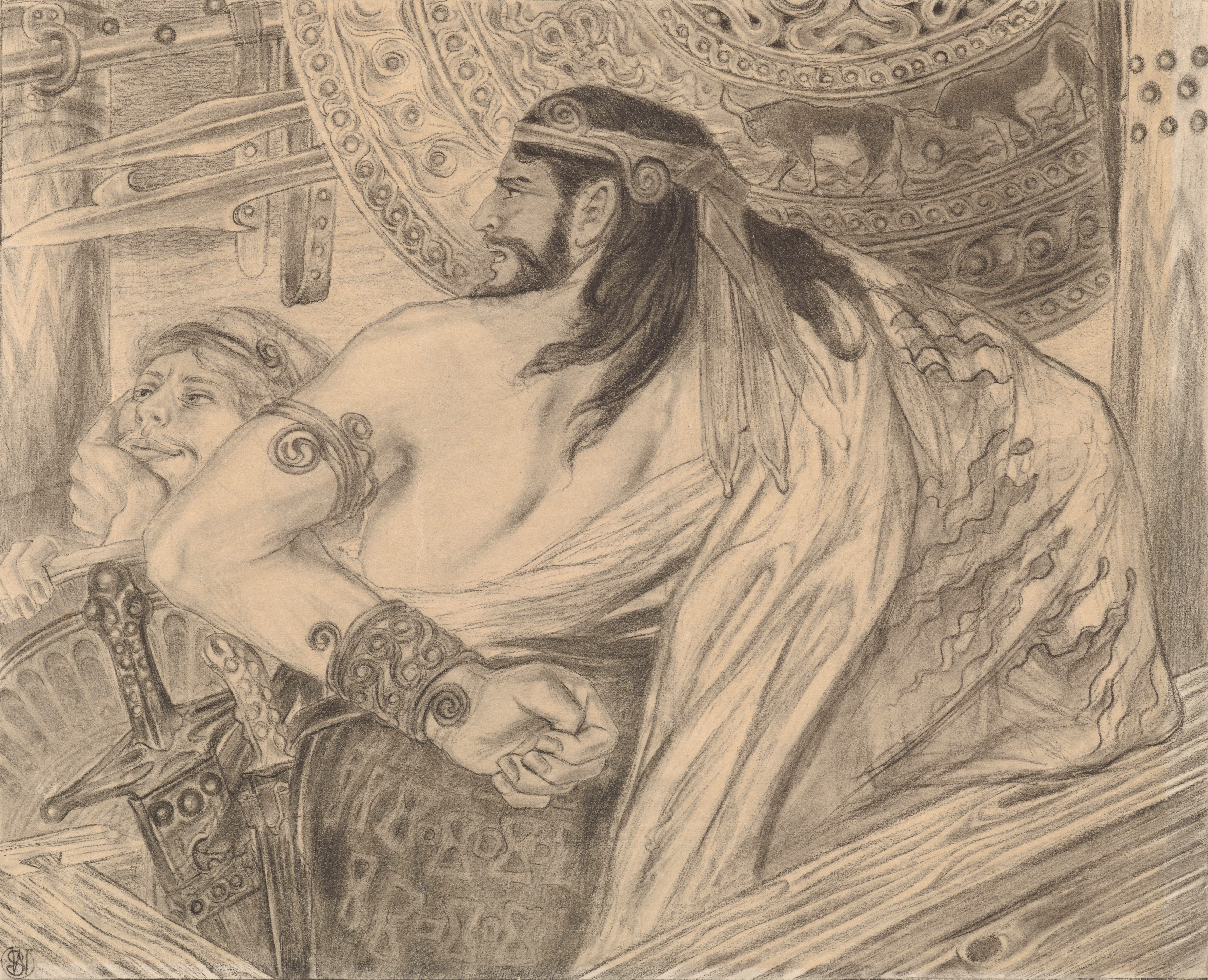 Agamemnon rises against Achilles and Menelaus, black-coloured pencil drawing, 20.7 x 25 cm, The National Museum in Kraków.